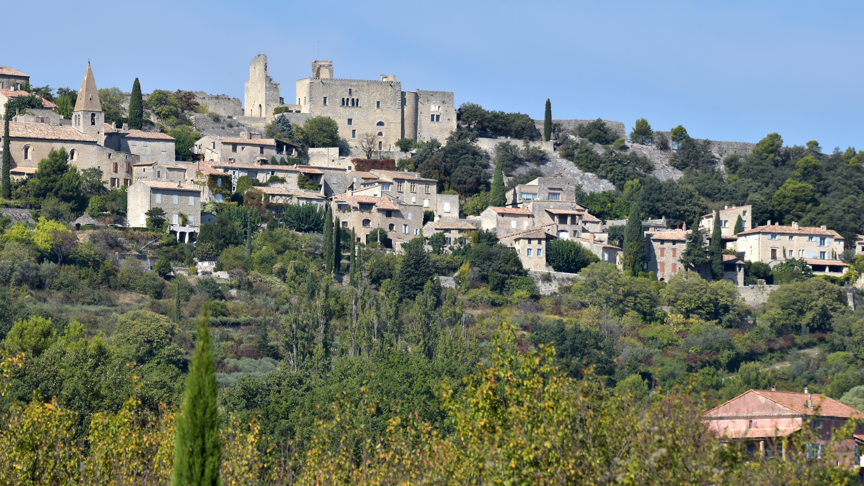 Crestet